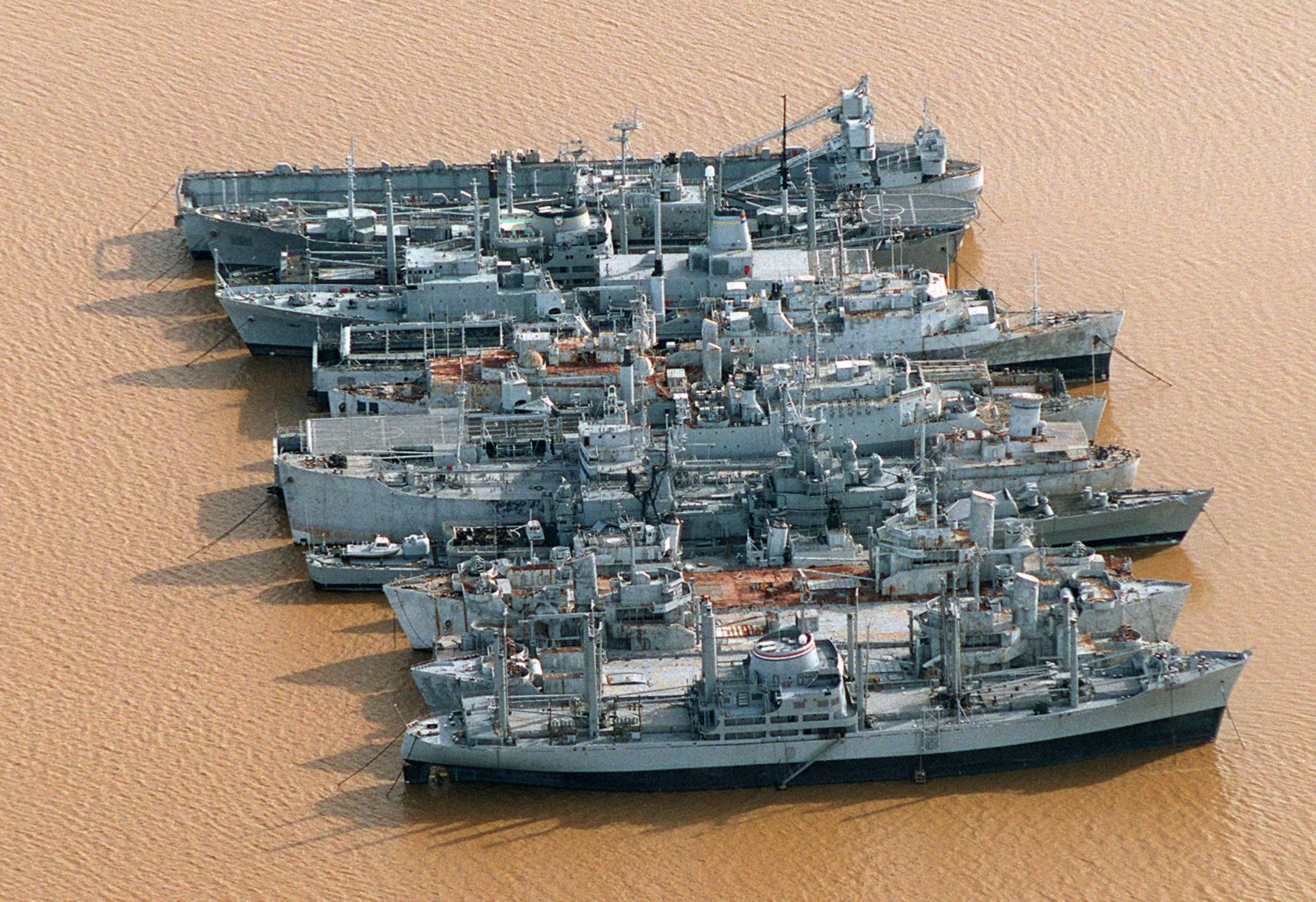 Aerial view of Unit 6E of reserve fleet ships in storage below Williamsburg. From bottom to top: USS Pride (AK-5017), USS Suffolk County (LST-1173), USS Lorain County (LST-1177), USS Wood County (LST-1178), a Gearing-class destroyer, a Belknap-class guided missile cruiser, USS Saugatuck (AO-75), a unidentified LSD, USS Plymouth Rock (LSD-29), USS Donner (LSD-20), USS Fort Snelling (LSD-30), USNS Tanner (T-AGS-40), USNS Vega (T-AK-286) and a unidentified ARDM.